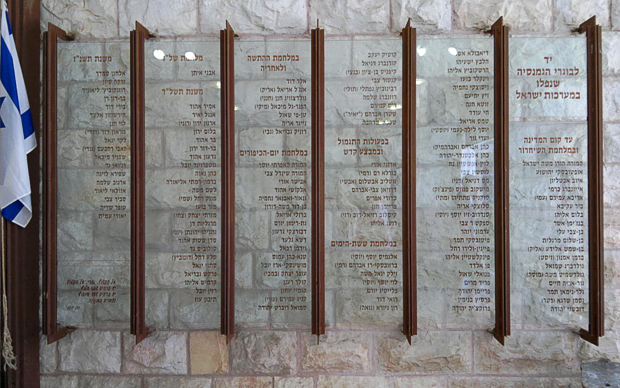 Memorial wall of Israel's fallen soldiers and terror attacks victims.